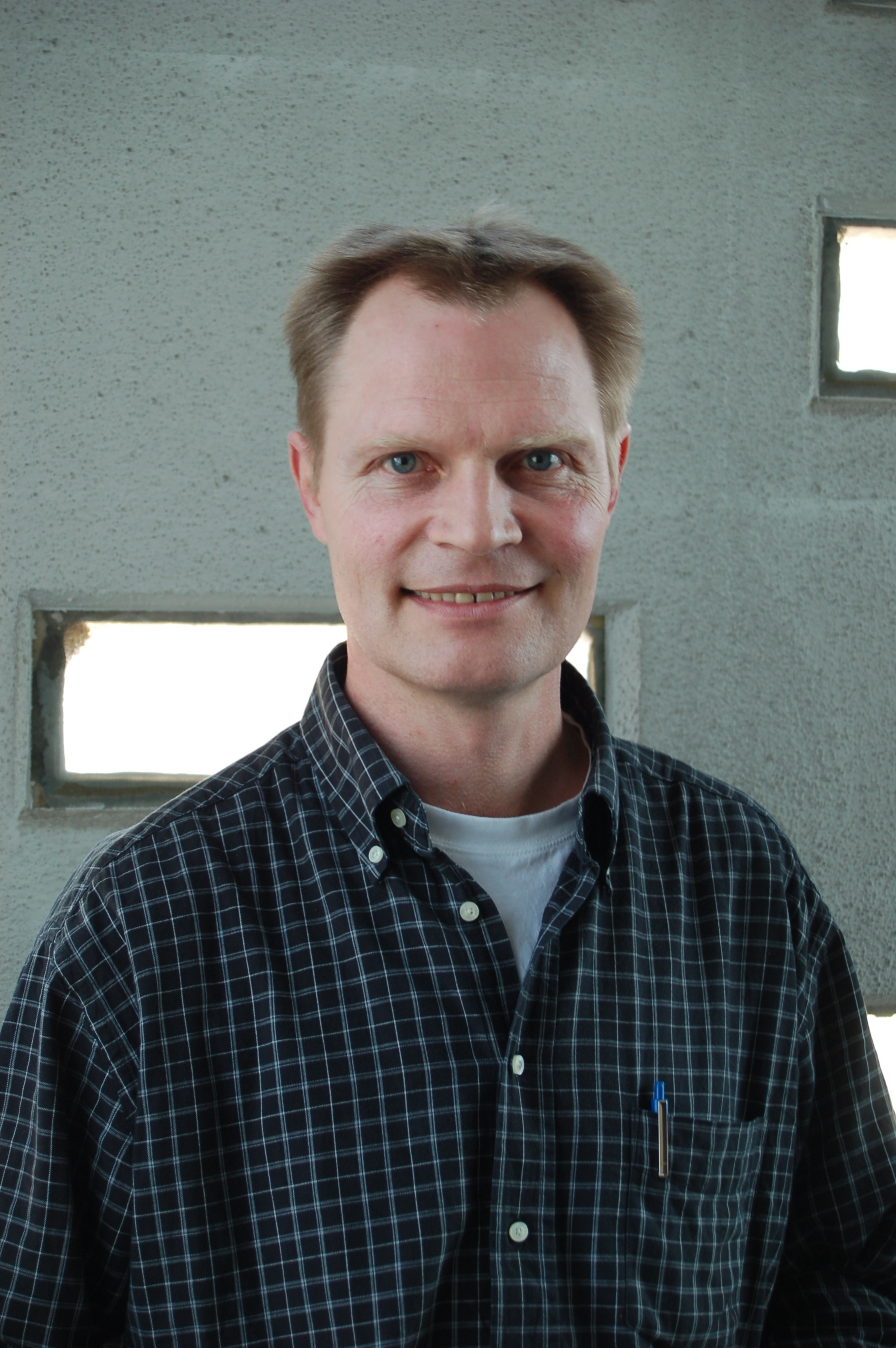 Professor melles